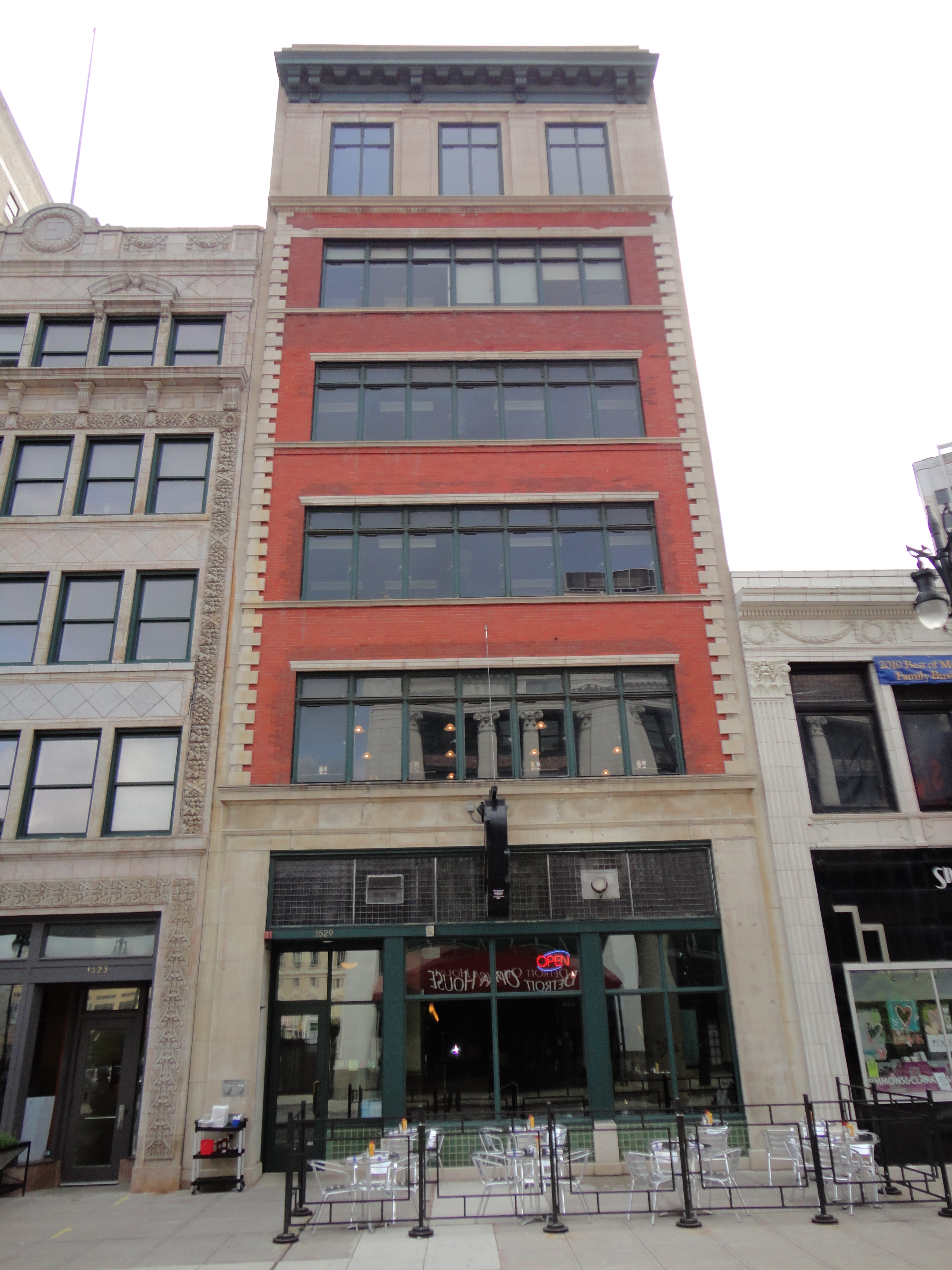 1529 Broadway Street, front of the historical Hartz Building in Detroit, MI.